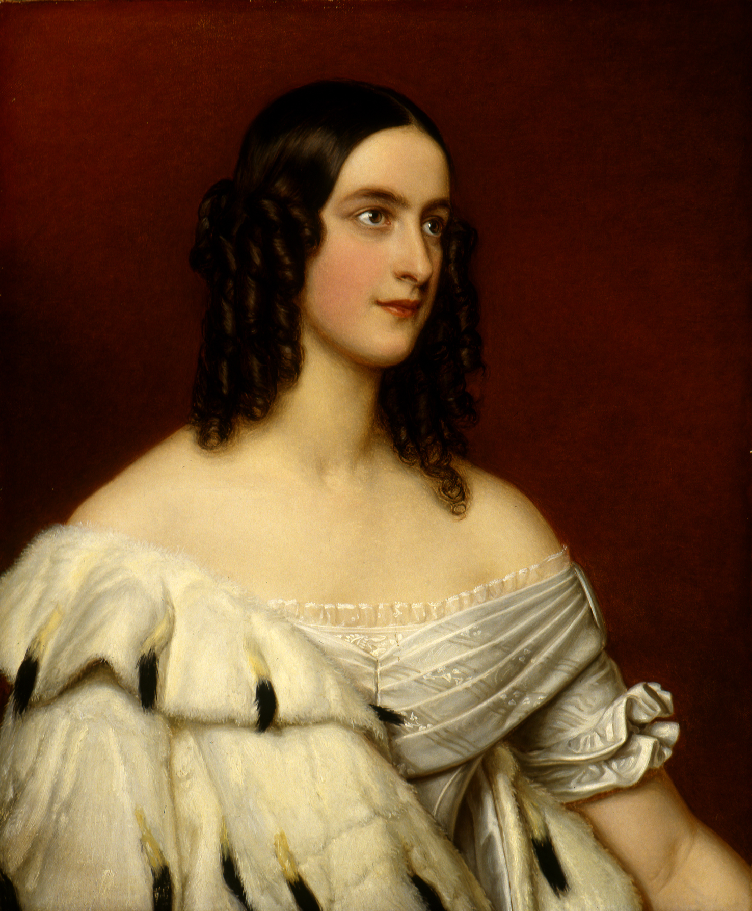 Caroline_von_Oettingen-Wallerstein